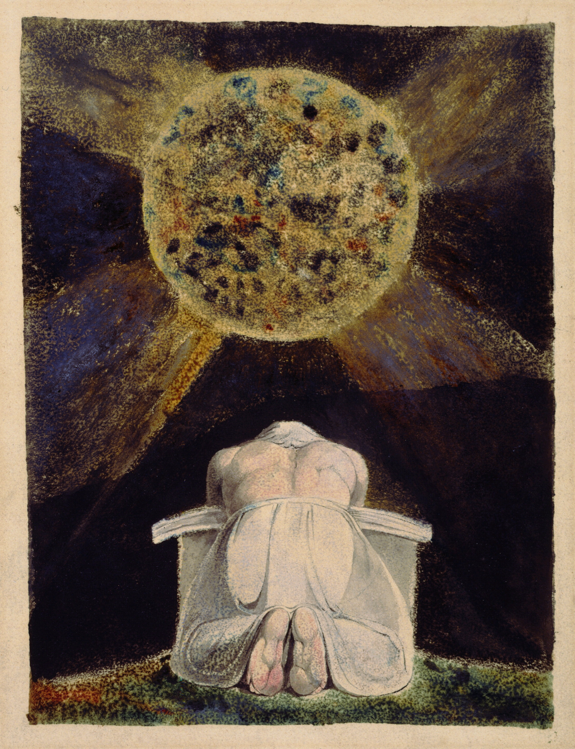 Plate from The Song of Los, copy B, in the collection of the Library of Congress. Leaf size 32.0 x 24.0 cm. LoC information Reference: Rosenwald 1808 The song of Los. Lambeth, Printed by W. Blake, 1795. 8 p.; 33 cm. This is a retouched picture, which means that it has been digitally altered from its original version. Modifications: The LoC scan was very dark, so I lightened it somewhat. It also had an obvious scanner error, which I edited out..